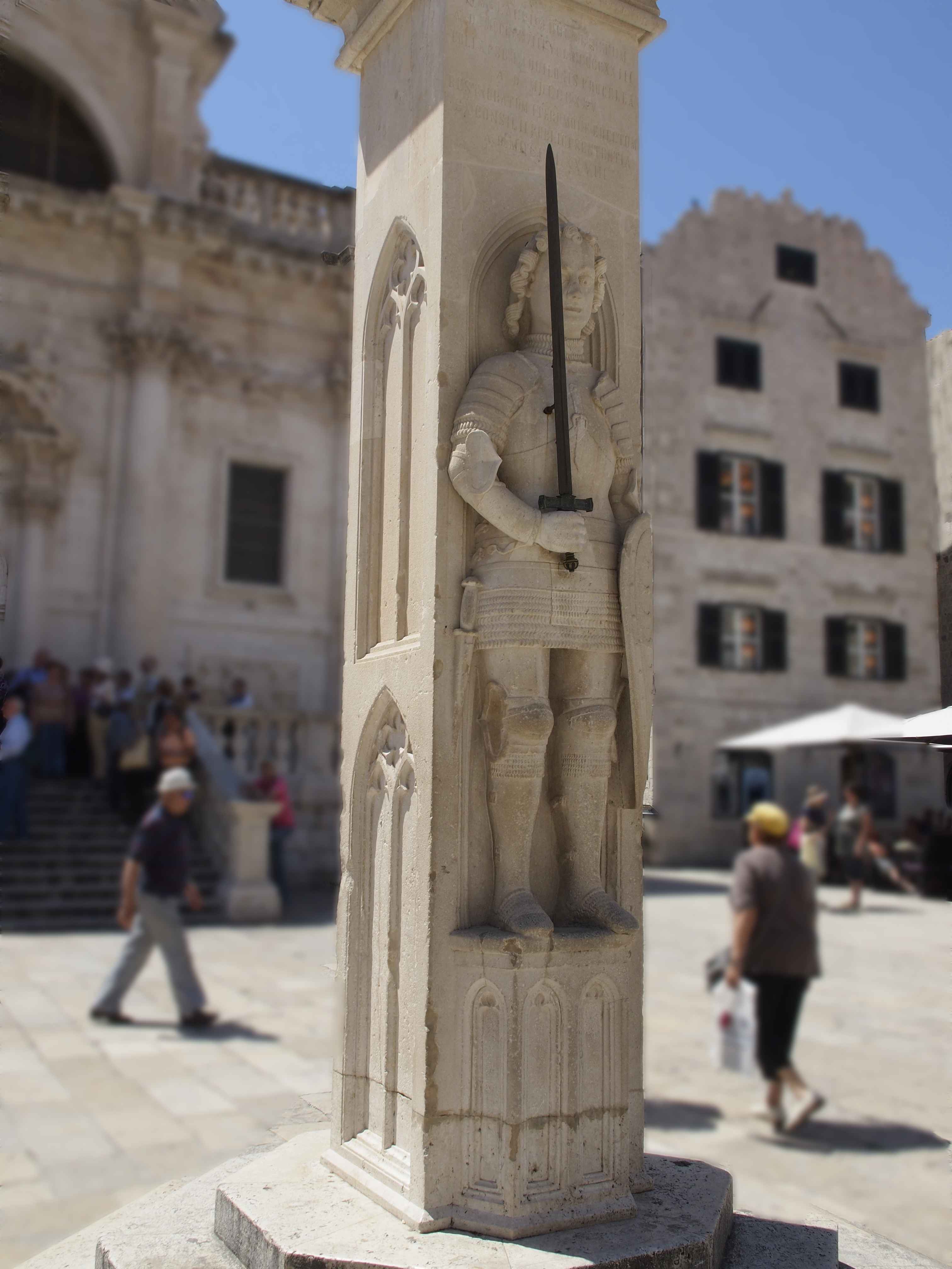 The statue of Roland (Ital. Orlando), symbol of freedom, Dubrovnik, Croatia